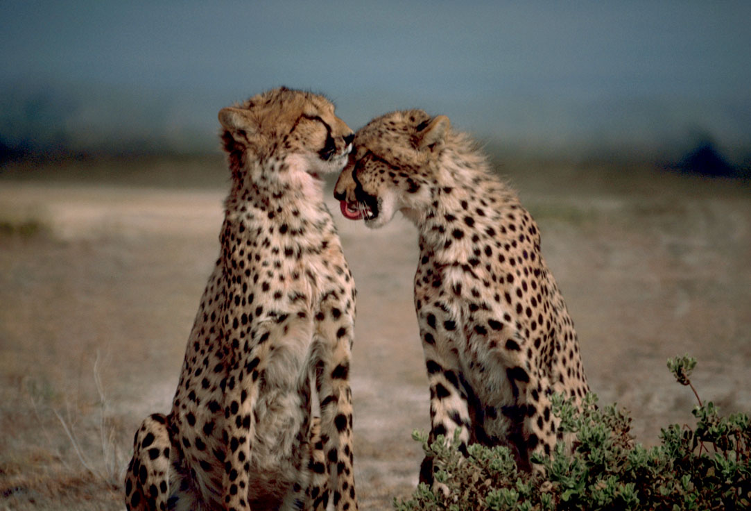 Two cheetahs (Acinonyx jubatus) sitting face to face